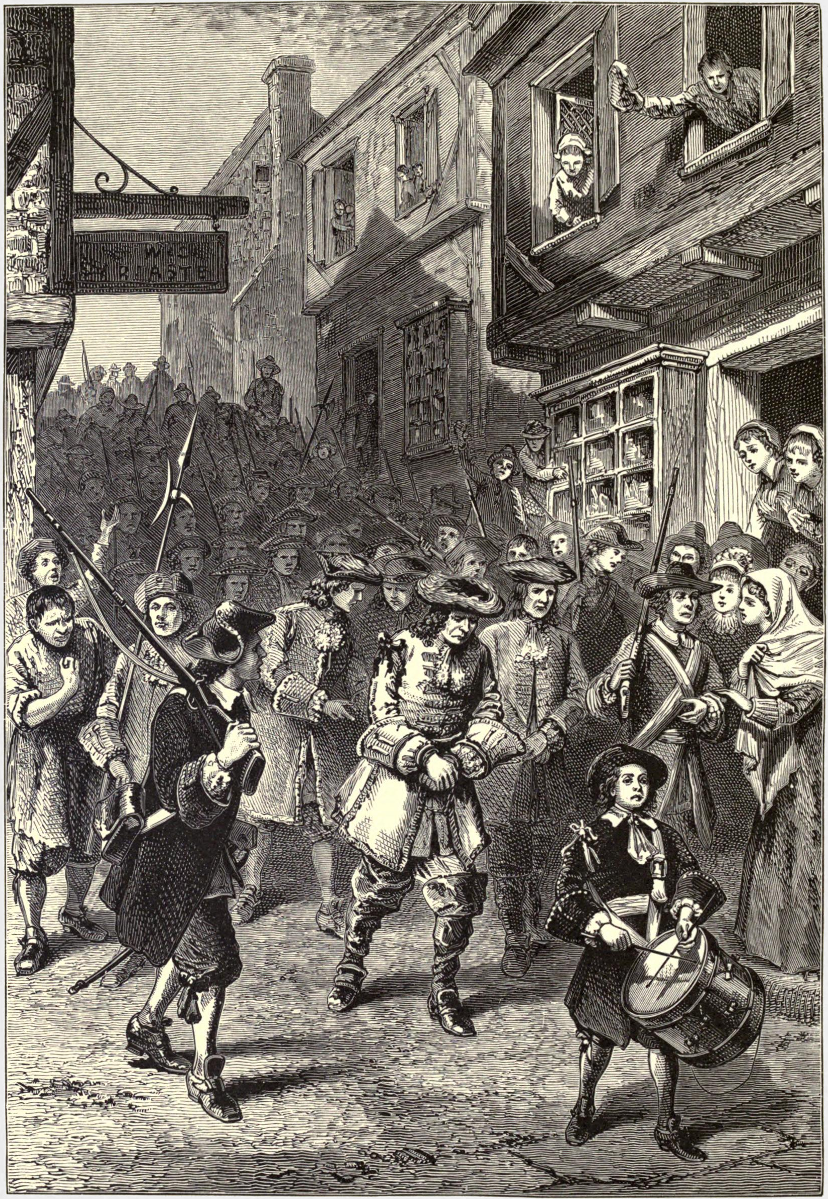 "Andros a Prisoner in Boston" illustrated by F.O.C. Darley, William L. Shepard or Granville Perkins.